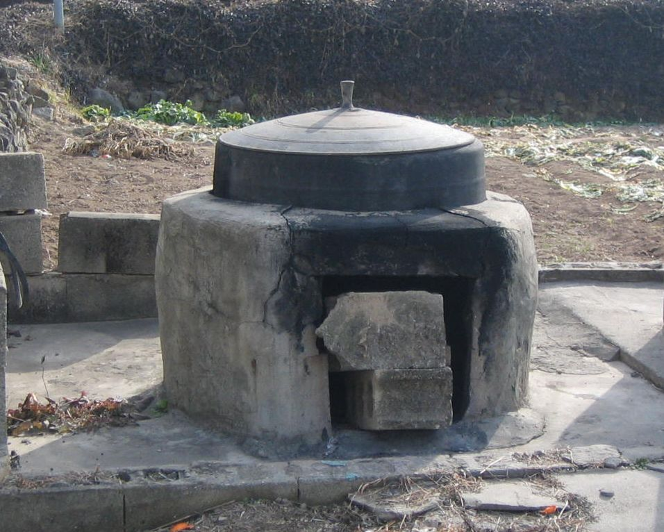 A traditional 'gamasot cooker in Nampo-ri, Samnangjin-eup, Miryang-si, Gyeongsangnam-do, South Korea.